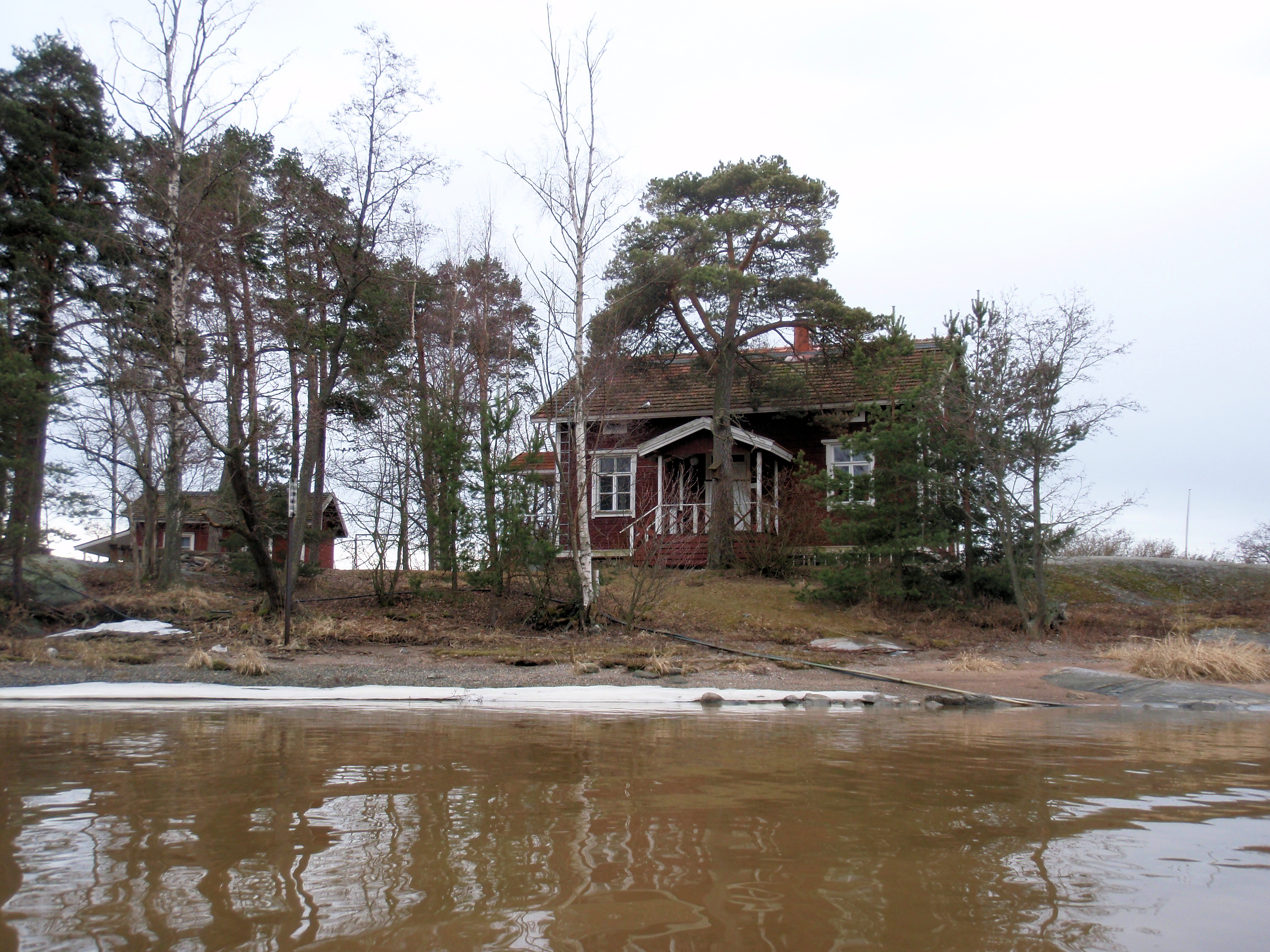 Small island in eastern Helsinki